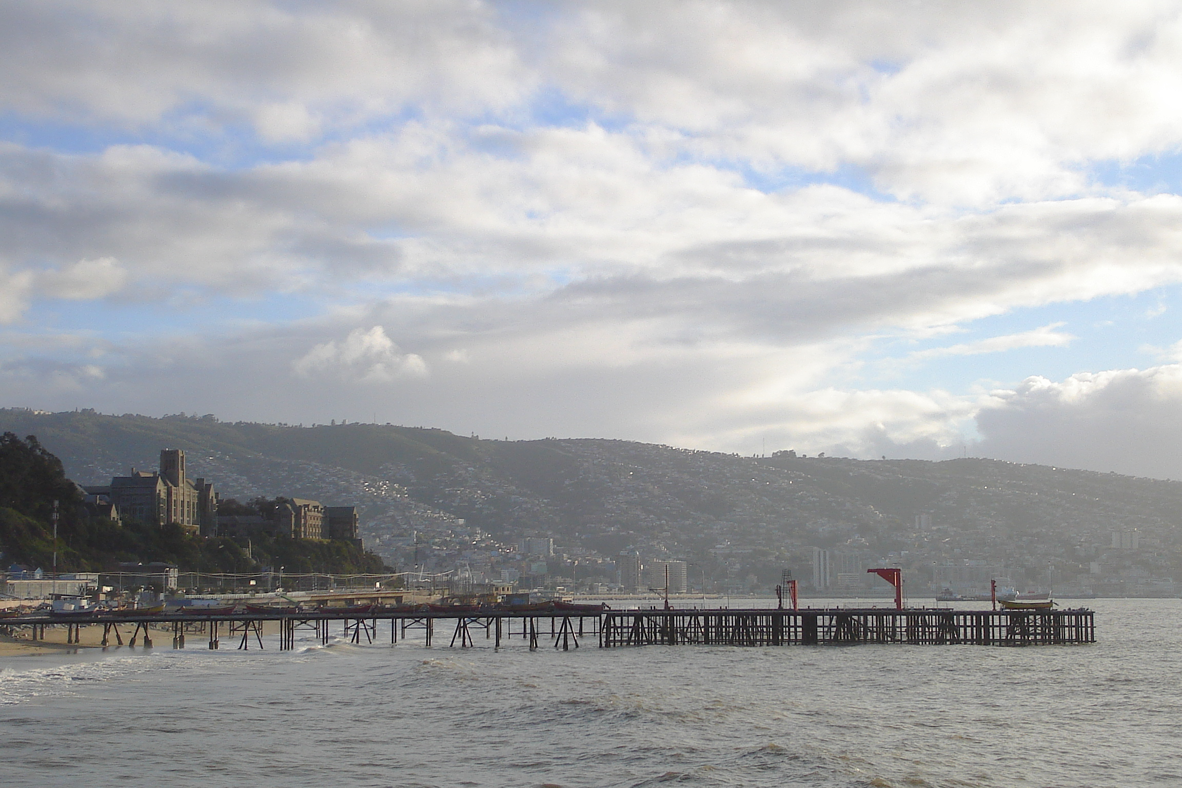 Photo of Caleta Portales, Valparaíso